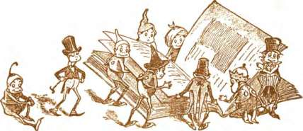 Palmer Cox's "The Brownies" reading a book, from "The Palmer Cox Brownie Primer"